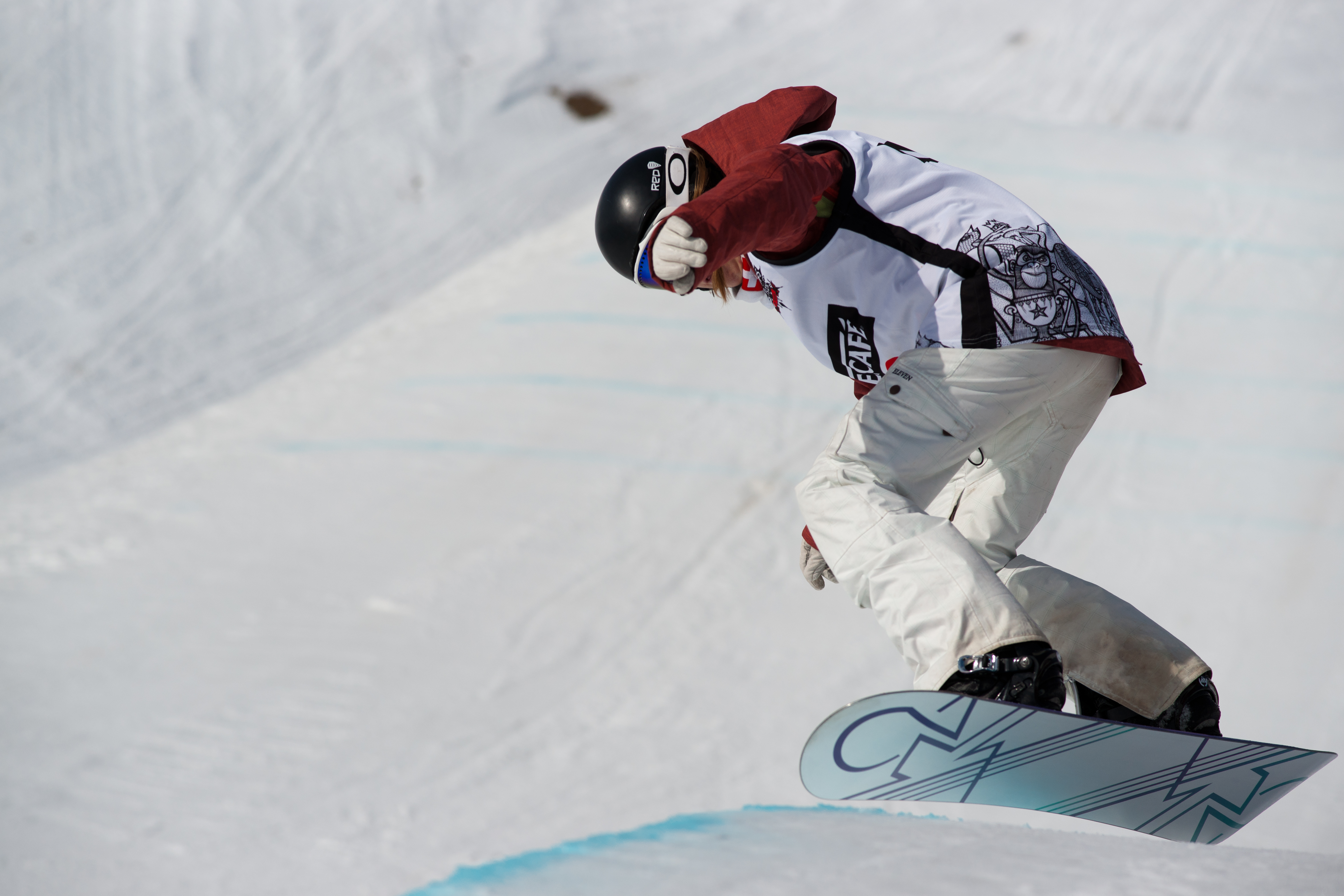 The making of this document was supported by Wikimedia CH. (Submit your project!) For all the files concerned, please see the category Supported by Wikimedia CH. 20th Leysin Nescafe Champs, 8th - 13th February 2011